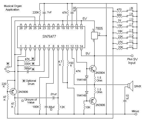 Application drawing using 76477 sound chip to create a musical organ.